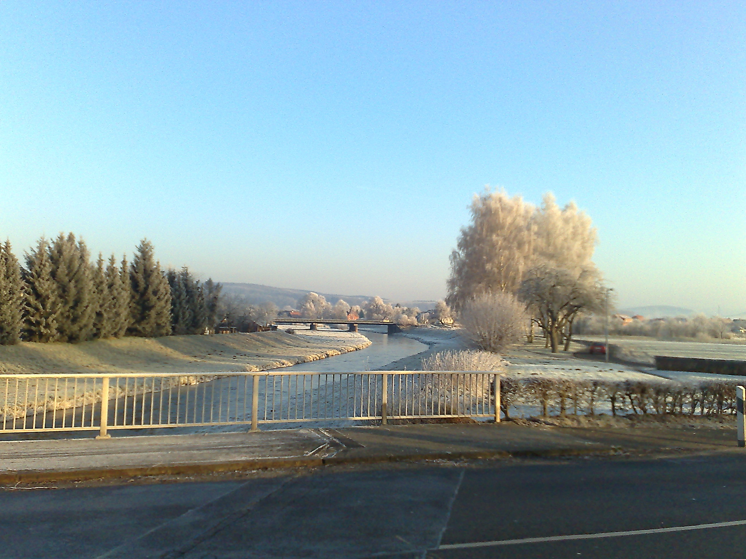 The Rhume River near Katlenburg